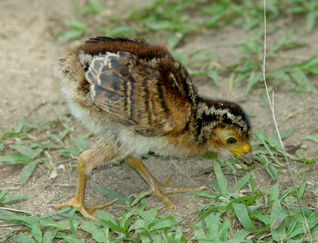 Crax rubra chick Great Curassow chick pecking the ground for food along the West Coast of the Osa Peninsula, Costa Rica, near Corcovado National Park - Feb 2005